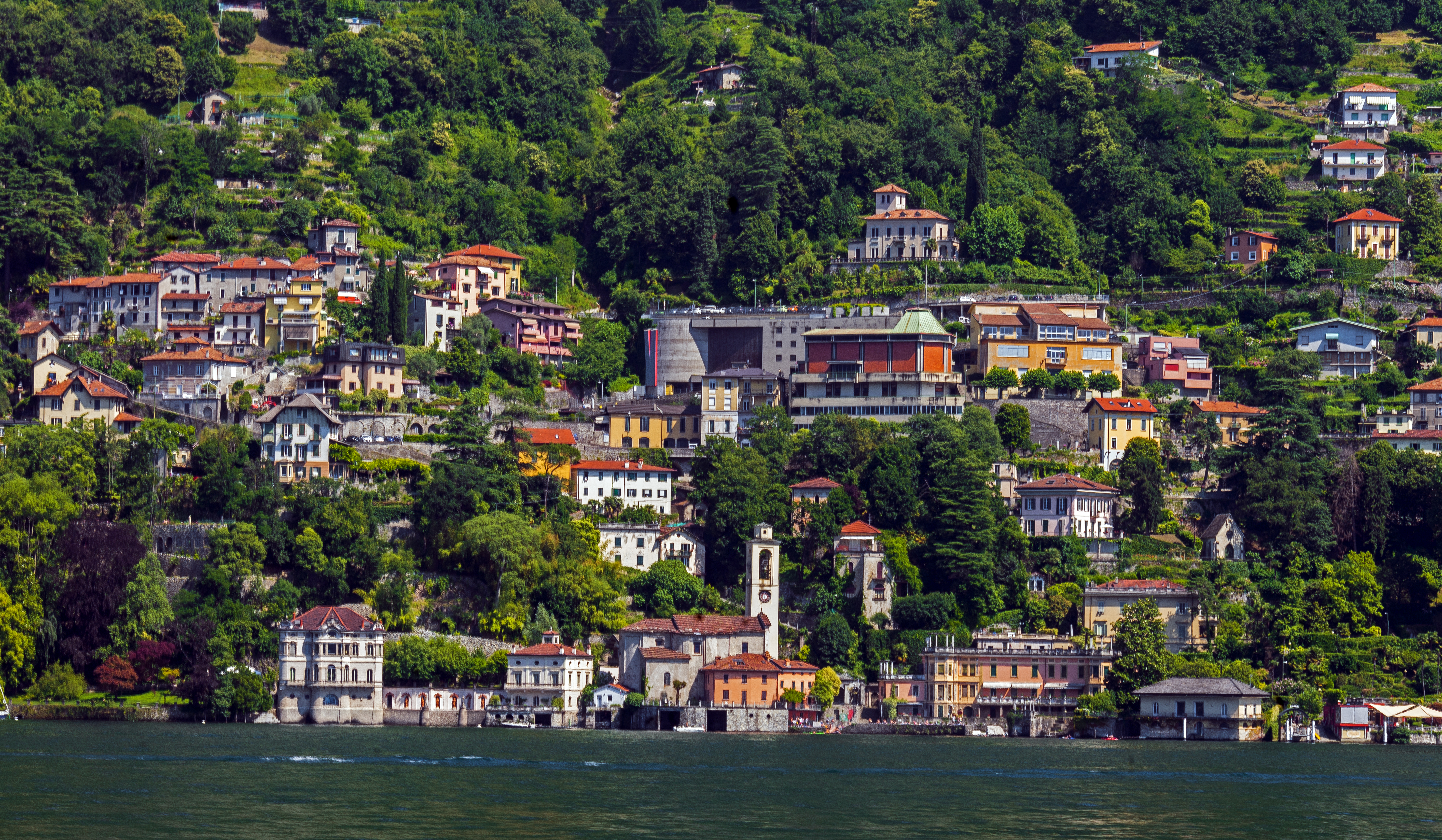 Blevio, seen from the ferry up Lake Como